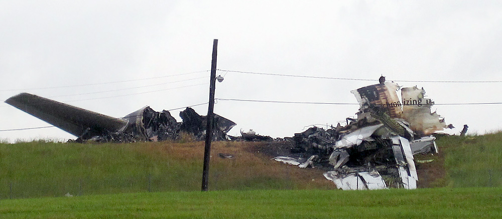 UPS Airlines Flight 1354 crash site tail and middle sections